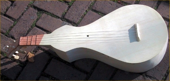 Viola de cocho from Brazil.